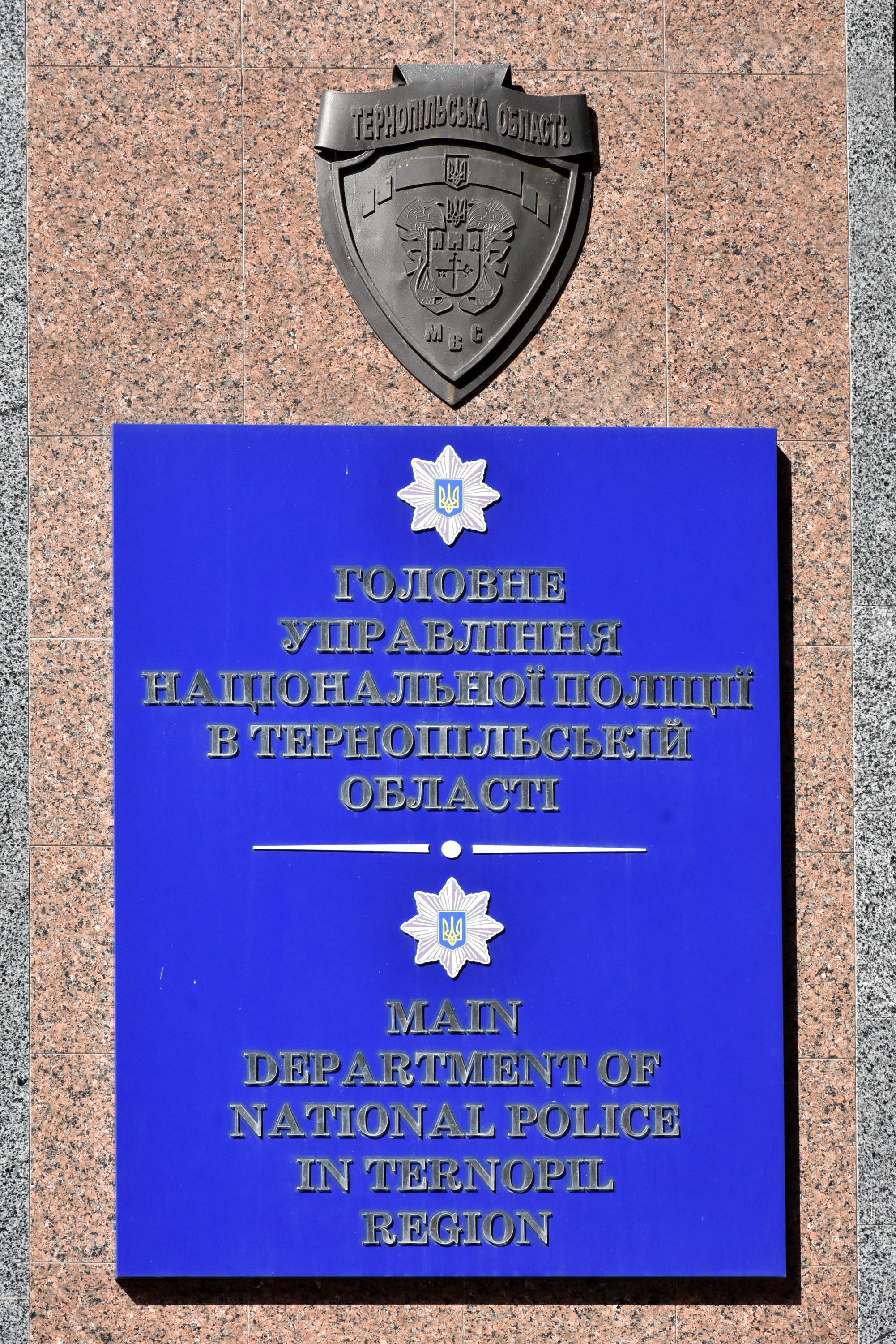 Main Department of National Police in Ternopil Region